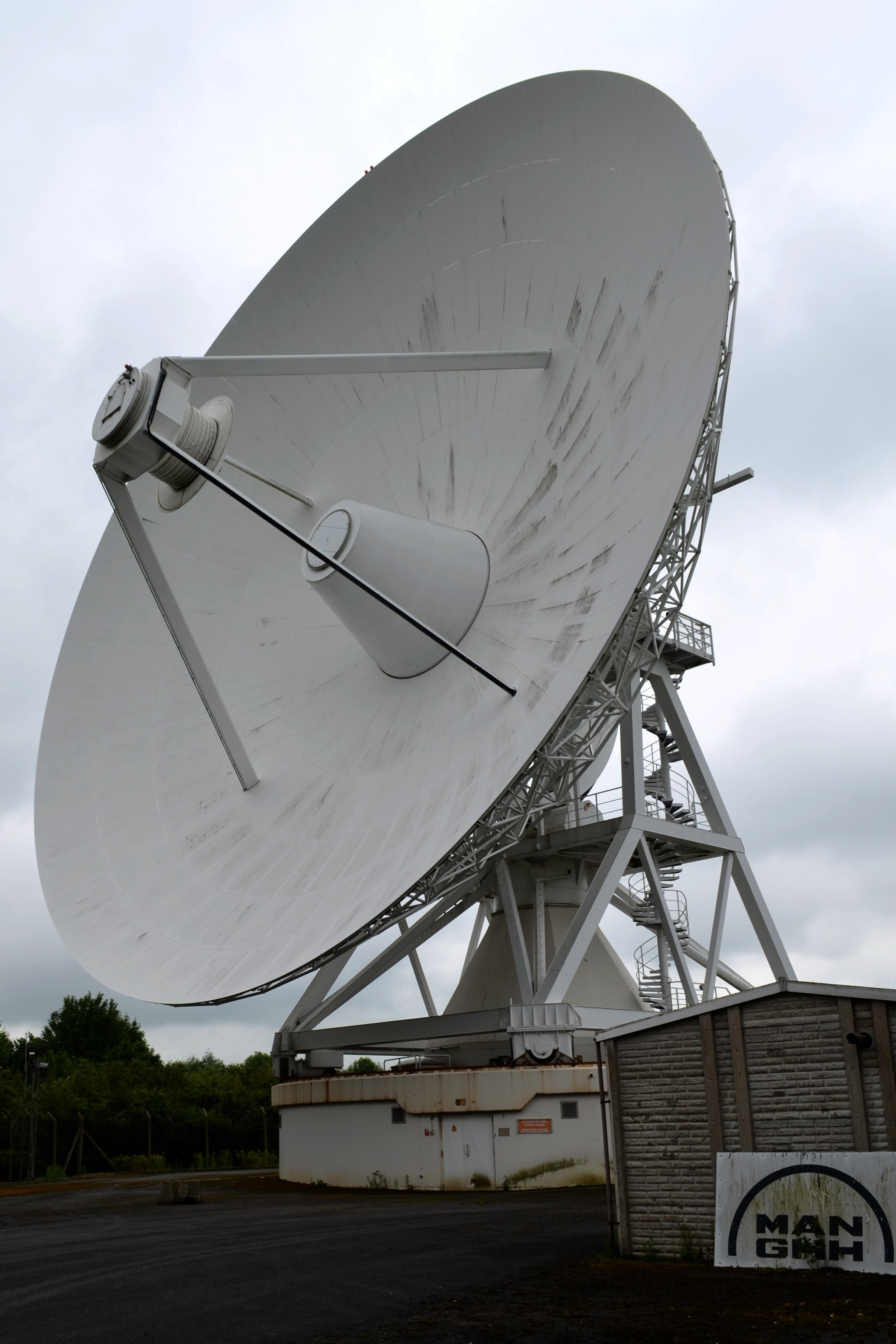 The receiver from the MERLIN array at the Mullard Radio Astronomy Observatory, Cambridgeshire in June 2014.